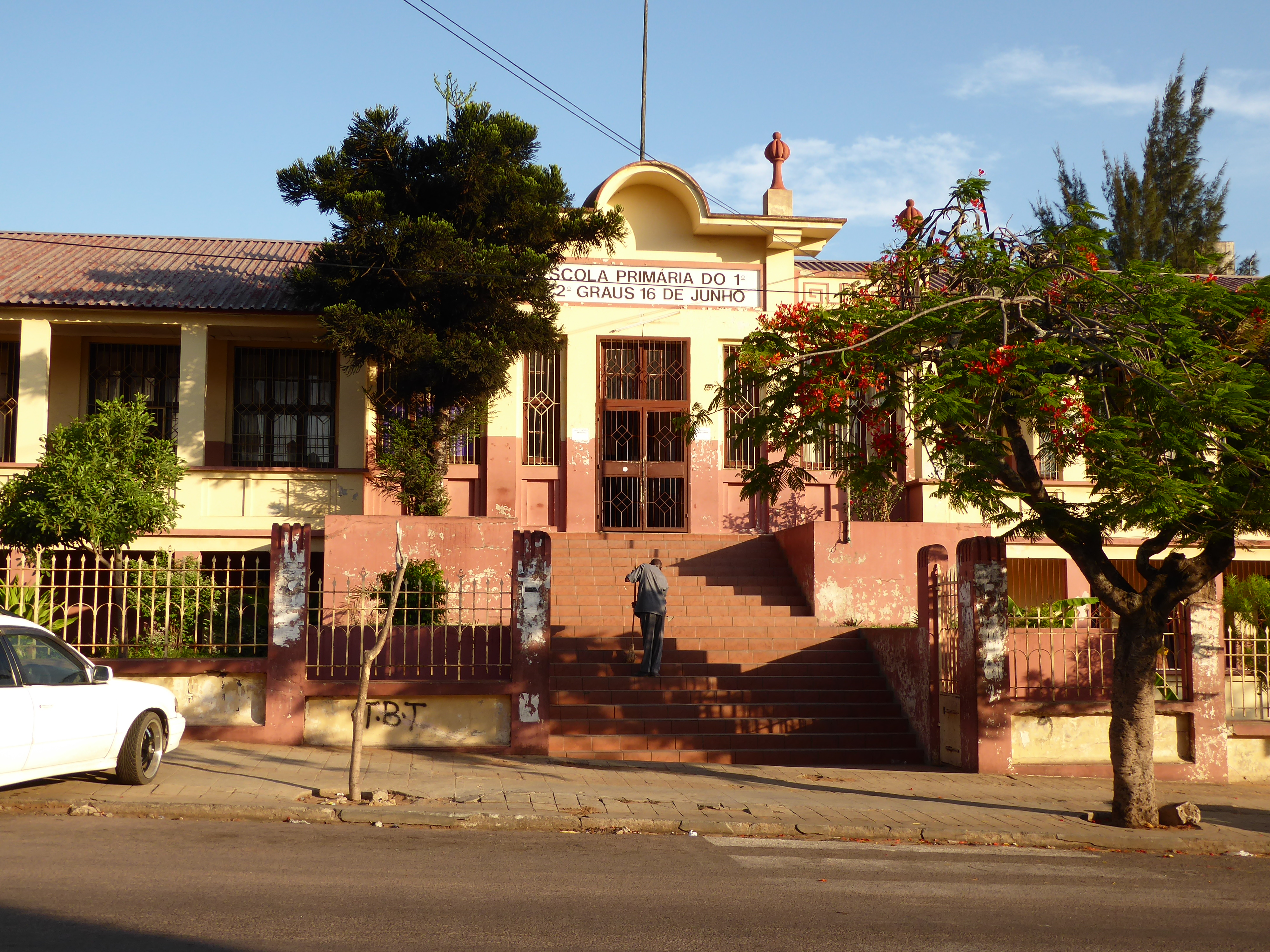 Primary School "June 16" on Avenida Vladimir Lenine, Maputo, Mozambique